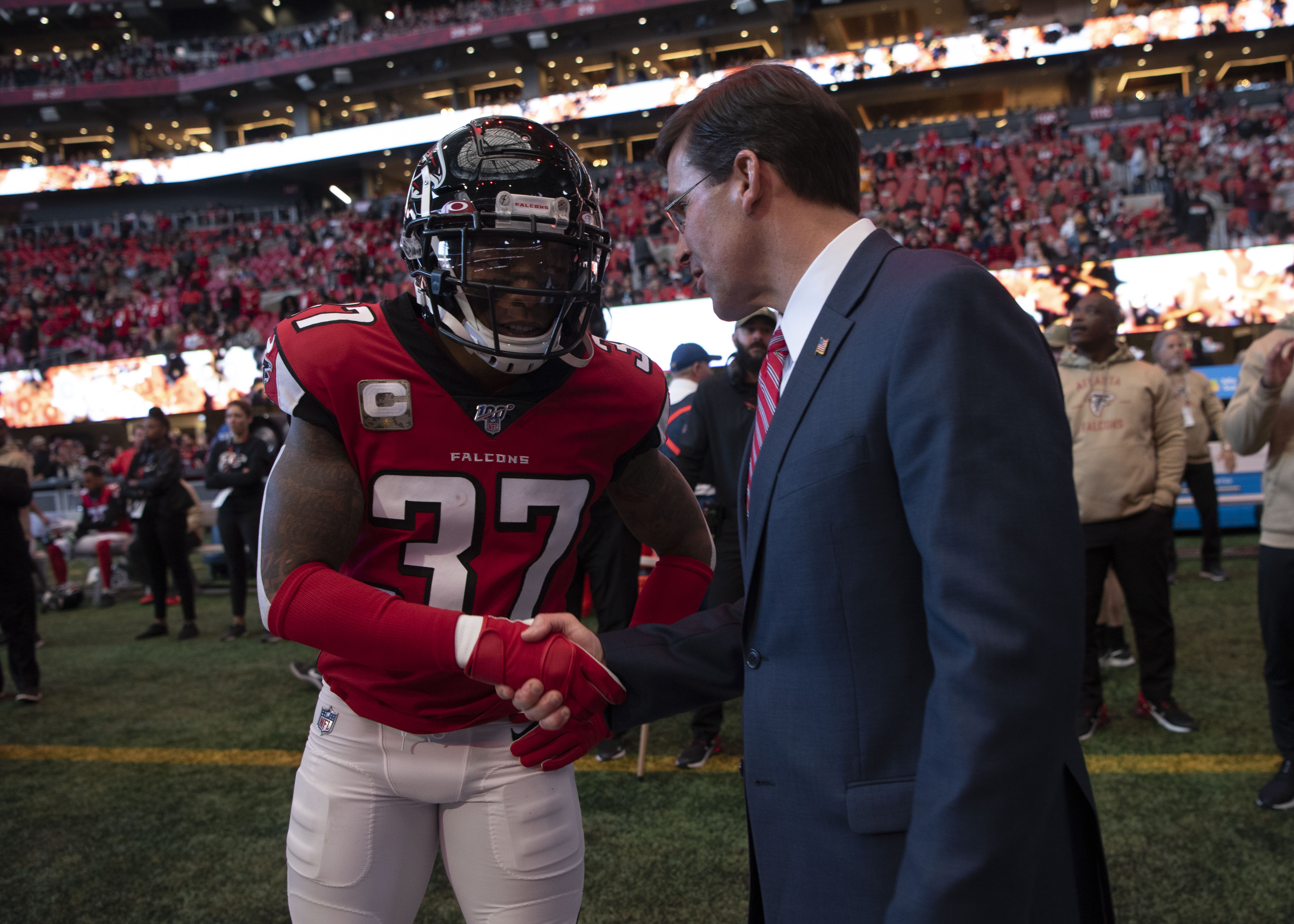 Defense Secretary Mark T. Esper greets Atlanta Falcon player Ricardo Allen, at the Atlanta Falcons vs. Tampa Bay Buccaneers Salute to Service game, Atlanta, Georgia, Nov. 24, 2019.